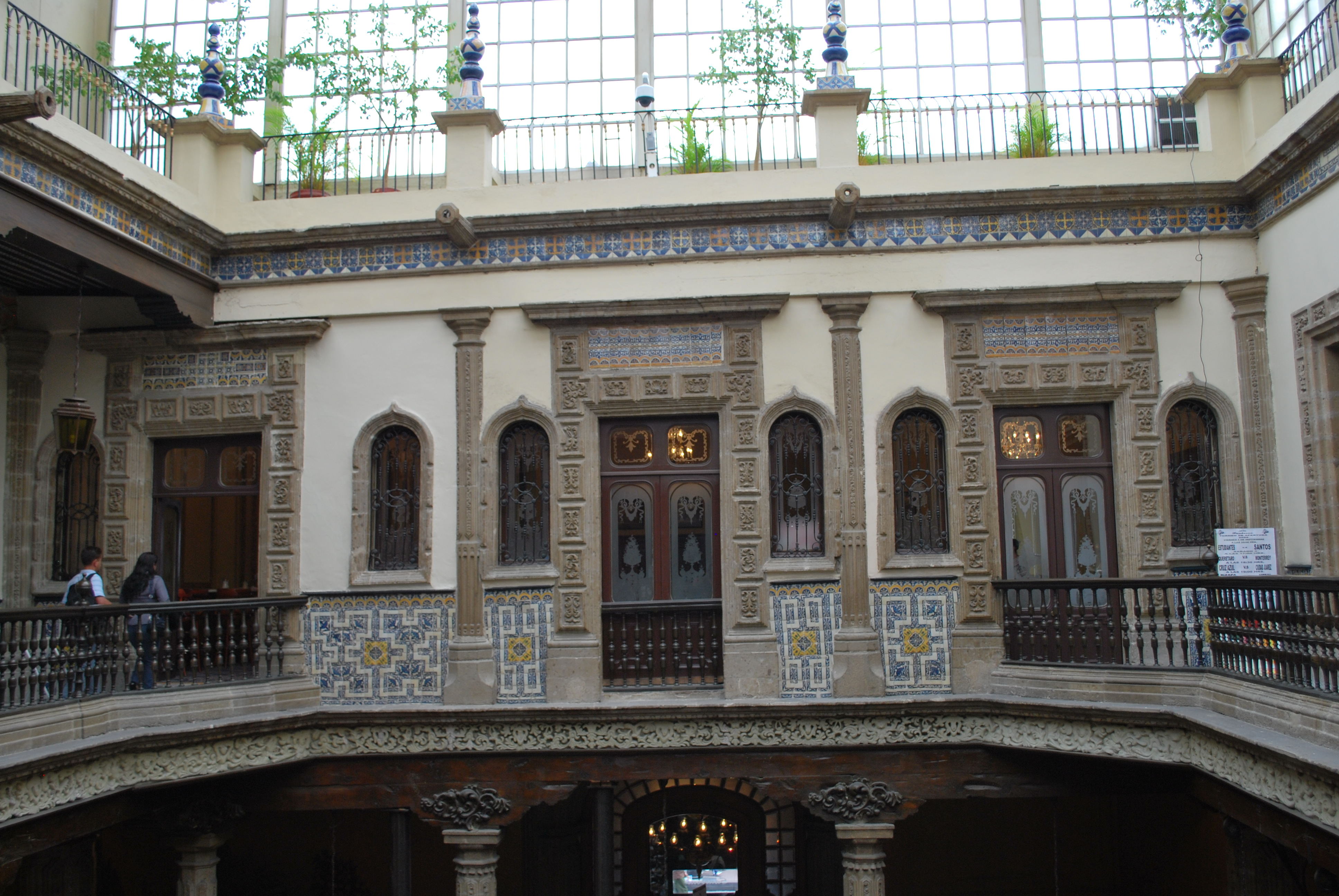 Upper floor door side of the Casa de Azulejos in the historic center of Mexico City